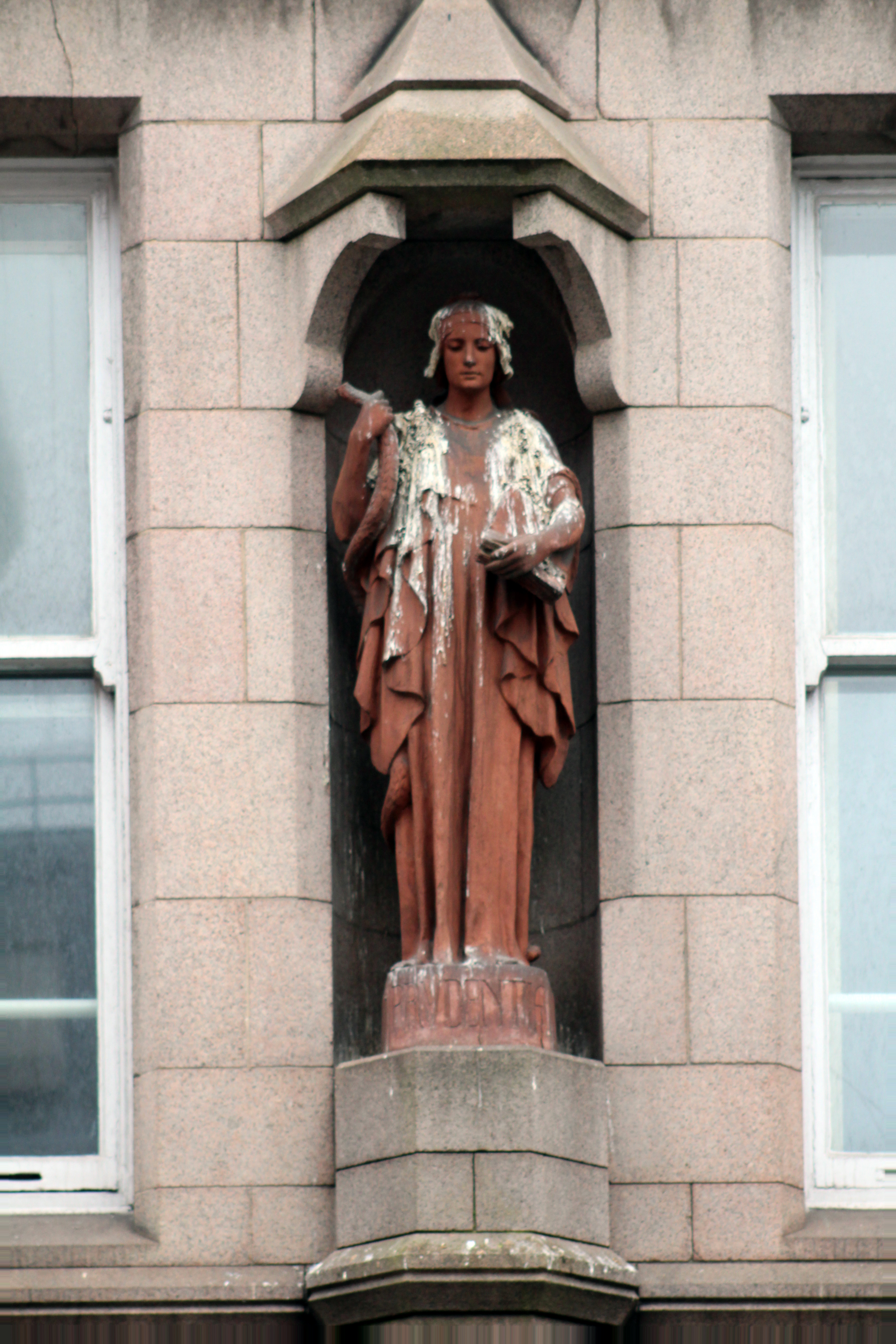 Statue of Prudence over the door of the Prudential Assurance Building, Dale Street, Liverpool. Much disrespected by local birdlife, sadly.